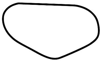 Mapa do Nazareth Speedway